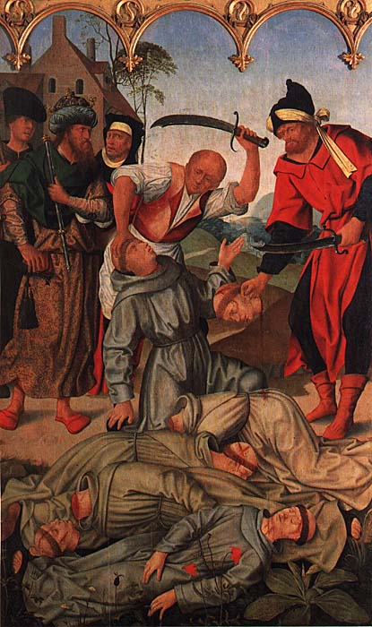 144.5 × 87 cm (56.9 × 34.3 in)